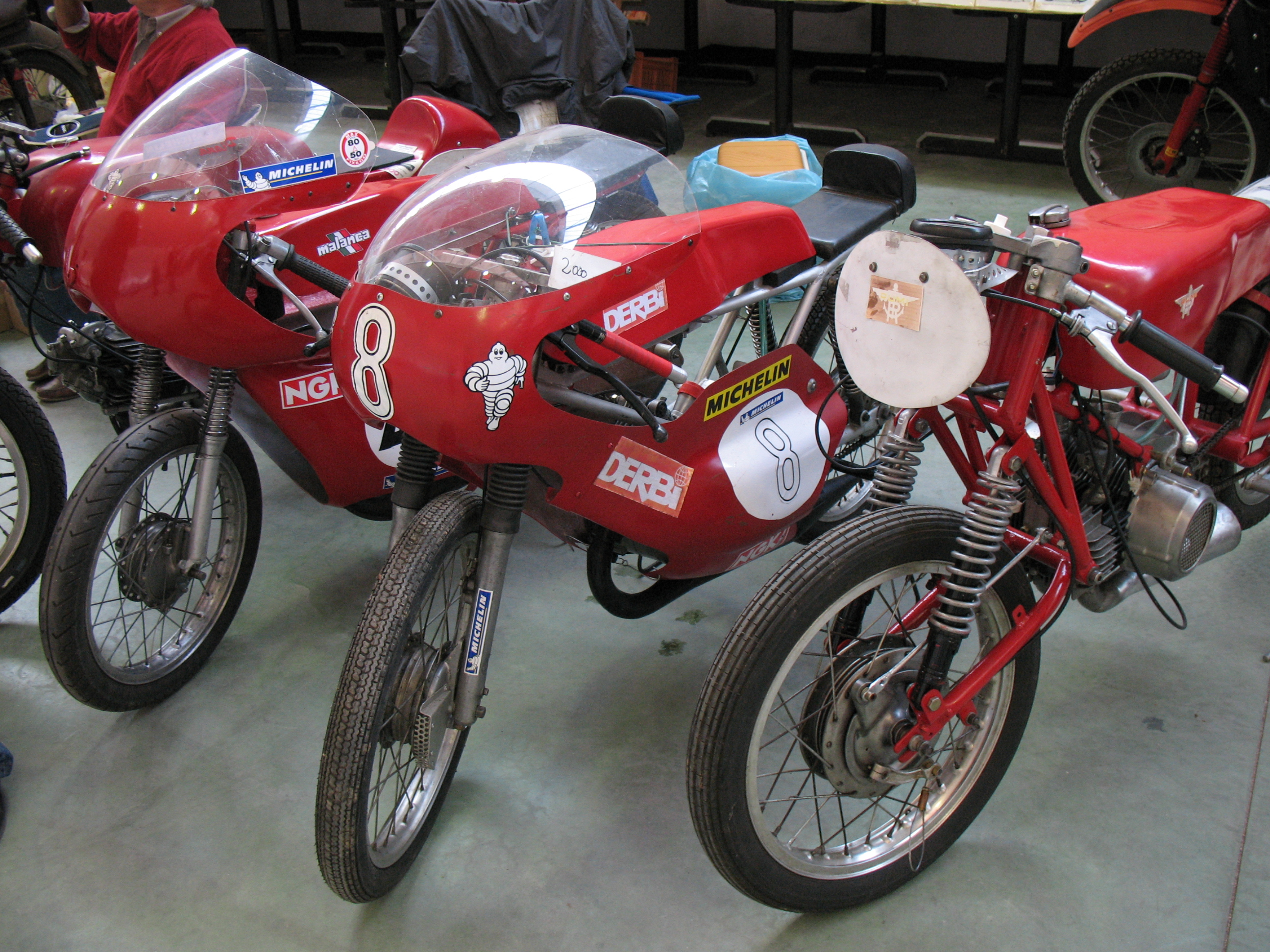 Three old (I think from the 60's) small racing bikes, likely of the 50 cc class: from right to left Rumi, Derbi, Malanca. Acqui Terme, Mostra Scambio Moto 2007, 6.10.2007